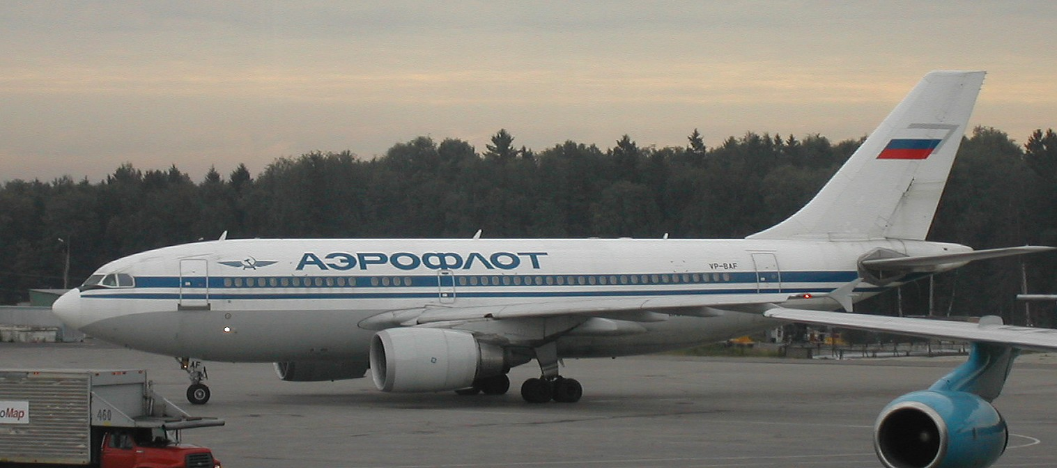 Airbus A310 in Aeroflot livery at Moscow-Szeremietiewo-2, august 2002.